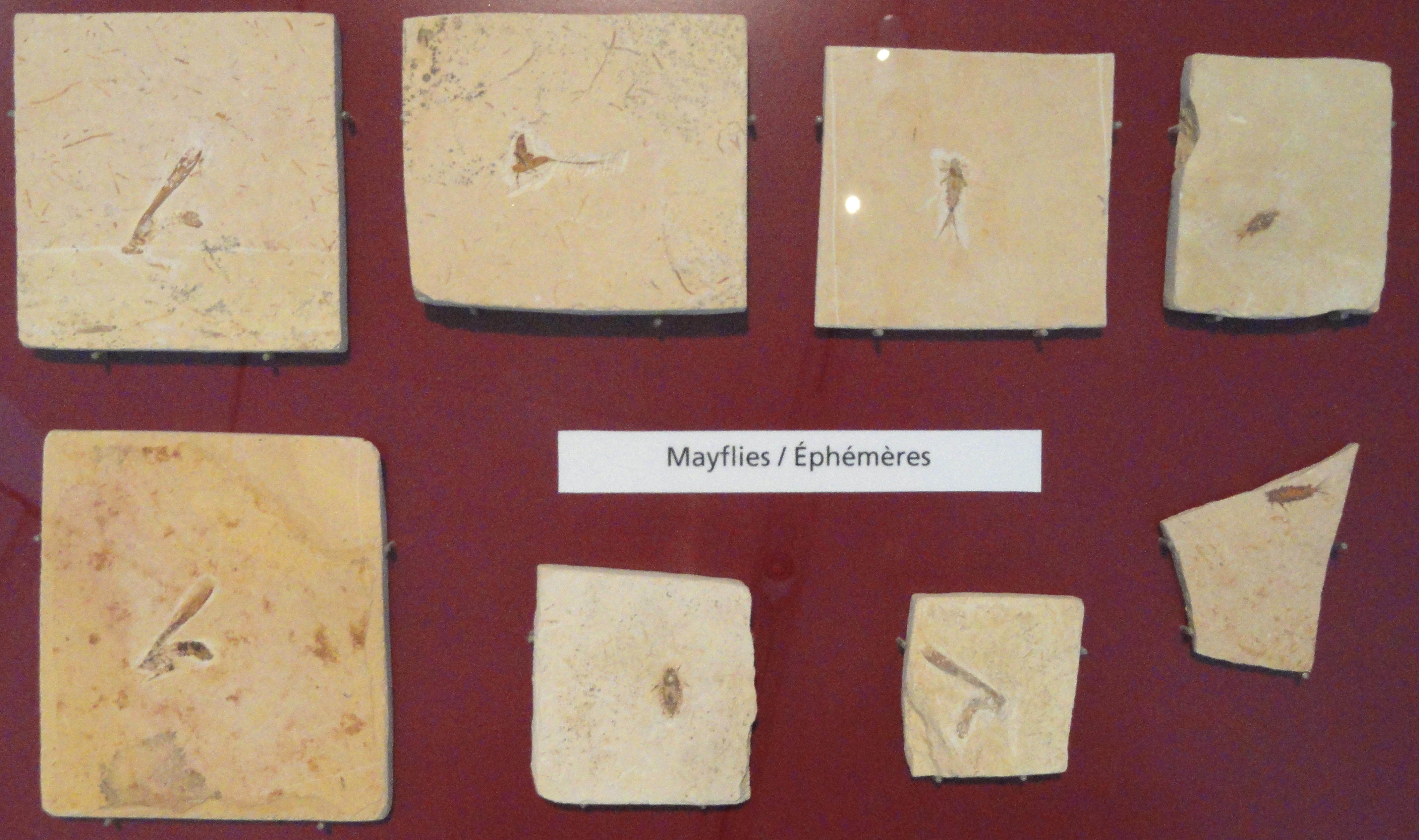 Exhibit in the Royal Ontario Museum, Toronto, Ontario, Canada. This exhibit is old enough so that it is in the public domain, and photography was permitted in the museum. I took this photograph and release it into the public domain.